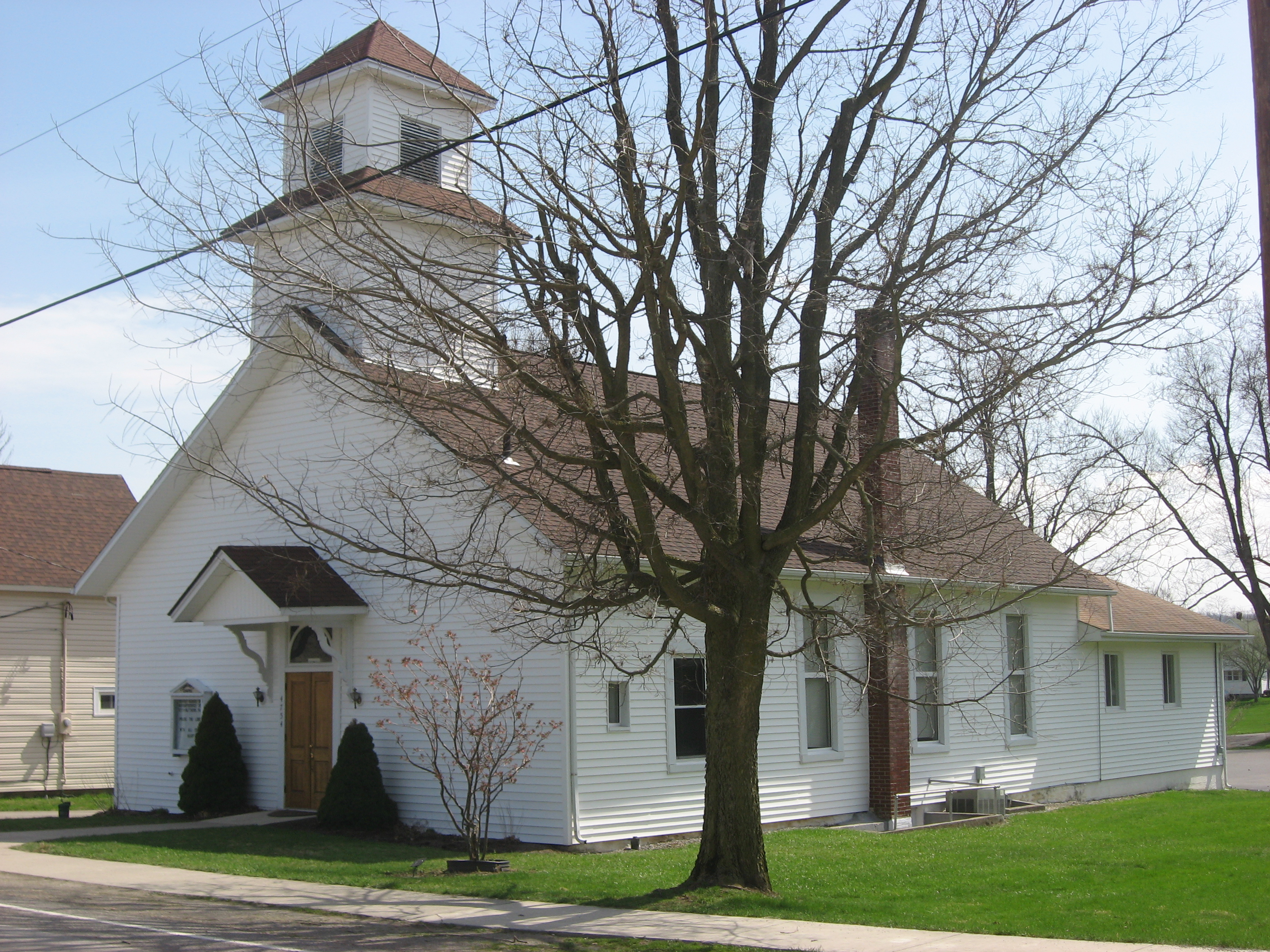 Front and western side of the Zanesfield Community Chapel (formerly a Presbyterian church), located at 4754 Bellefontaine Street (County Road 10) in Zanesfield, Ohio, United States.